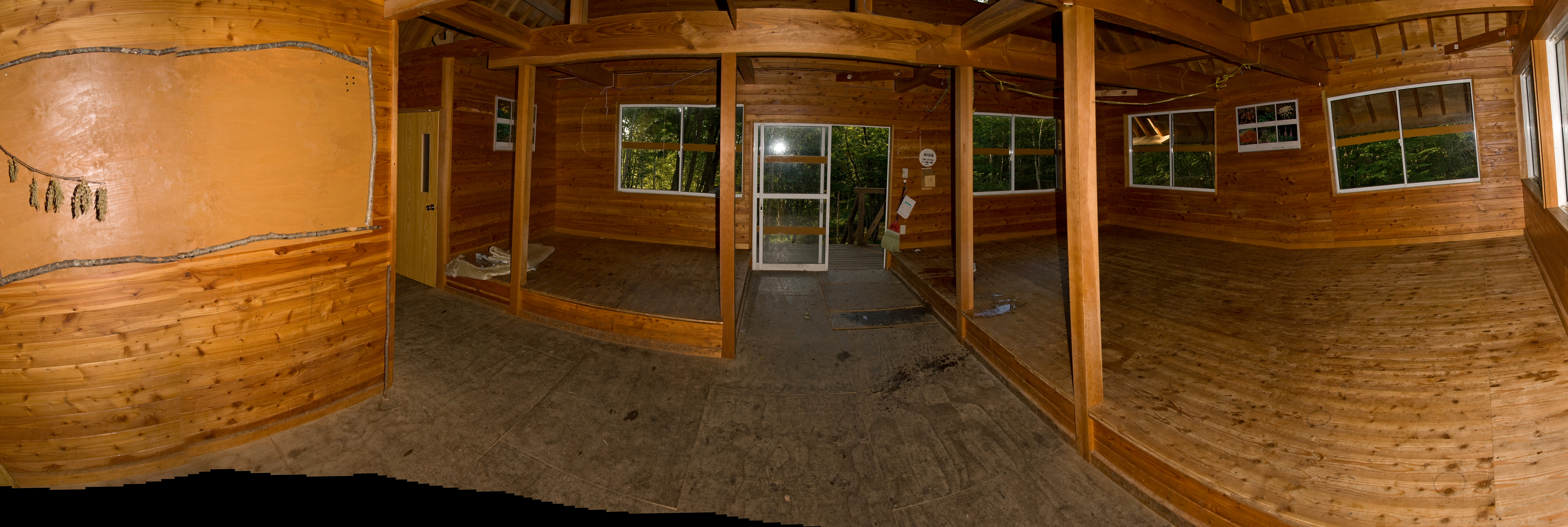 Ikeyama hut (池山小屋 Ikeyama-goya), Mts.Kiso, Nagano Pref., Japan.